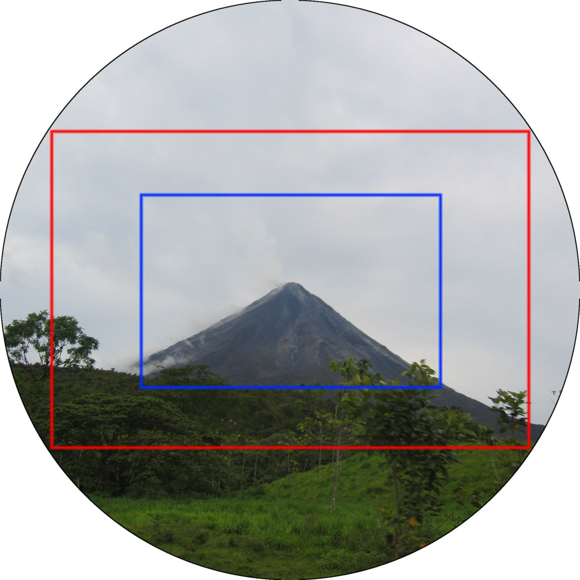 Figure showing Crop Factor. Source image of Mt Arenal, Costa Rica, taken by me. The outer, red box displays what a 24×36 mm sensor would see, the inner, blue box displays what a 15×23 mm sensor would see (the actual image circle of most lenses designed for 35 mm SLR format would extend further beyond the red box than shown in the image.)